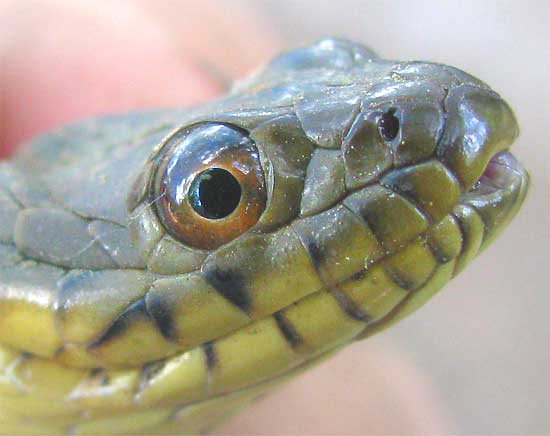 Diamondback watersnake, Nerodia rhombifer